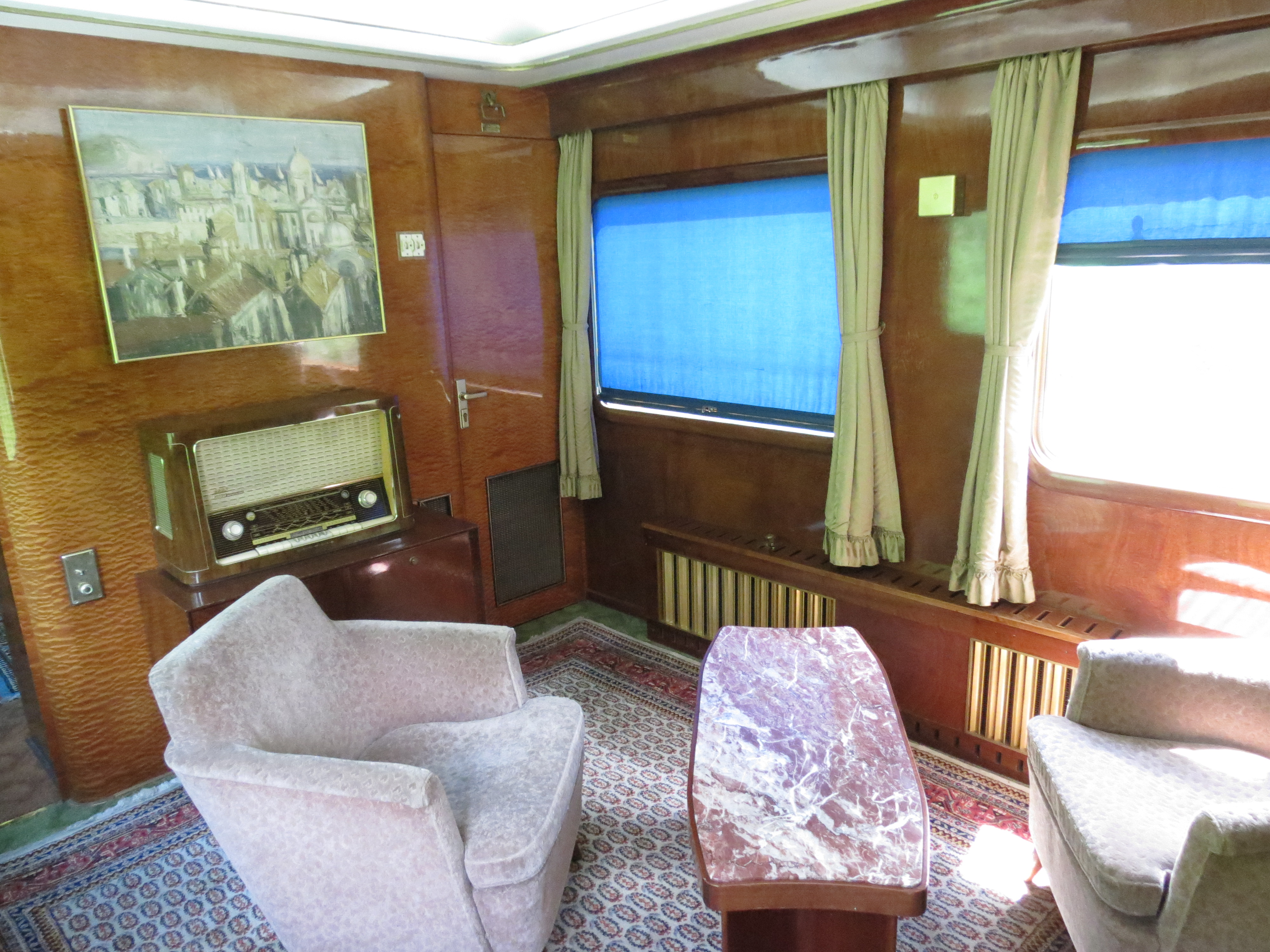 Small private salon in the blue private train of Yugoslav President Josip Broz Tito.